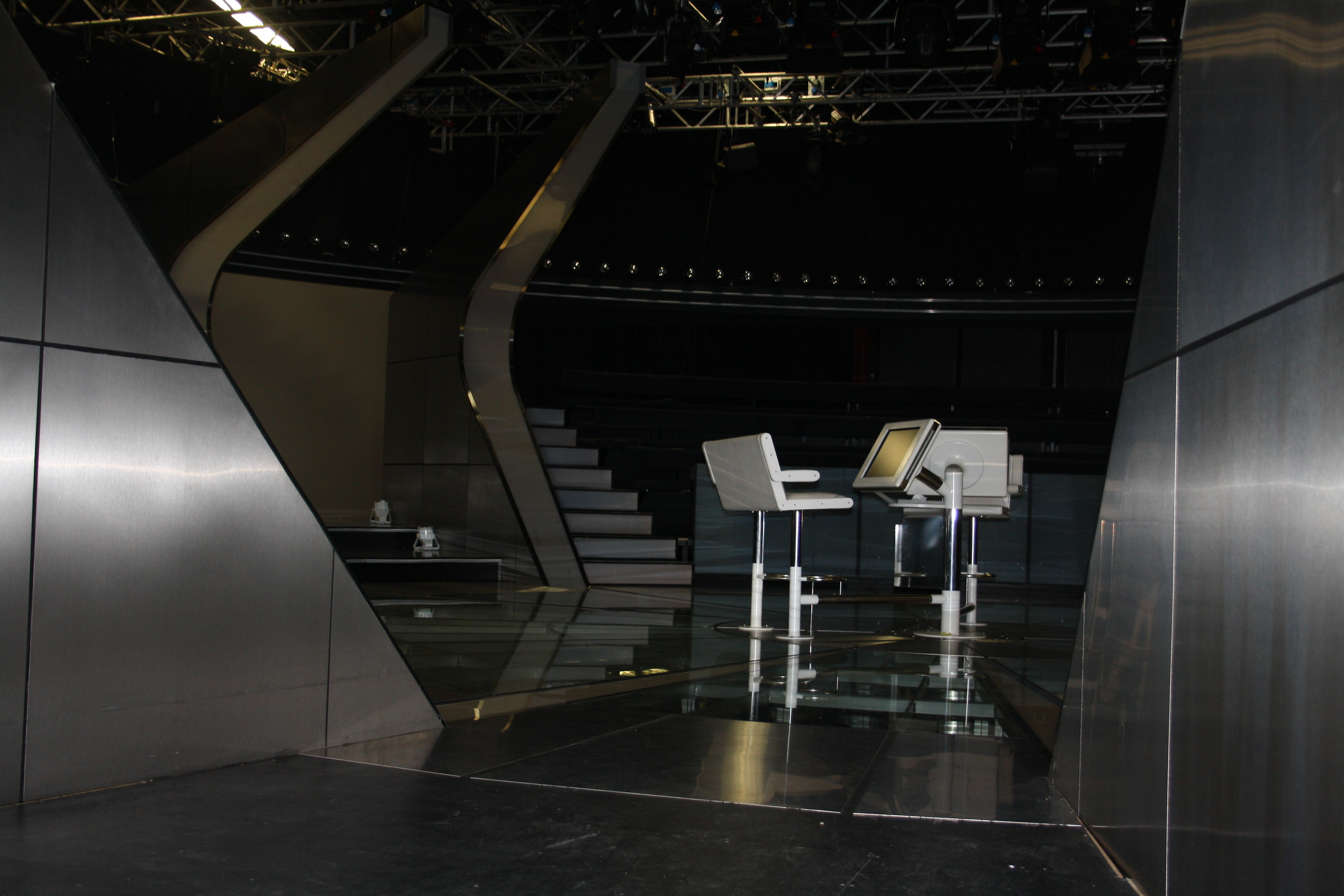 Postkodmiljonären